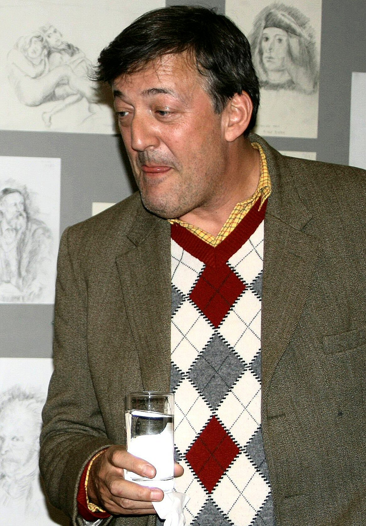 Stephen Fry at Nightingale House,December 2009